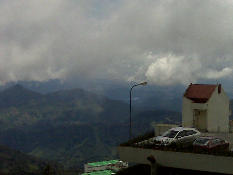 Part of Klang Gates Dam and its vicinity seen from Genting Highlands, Pahang